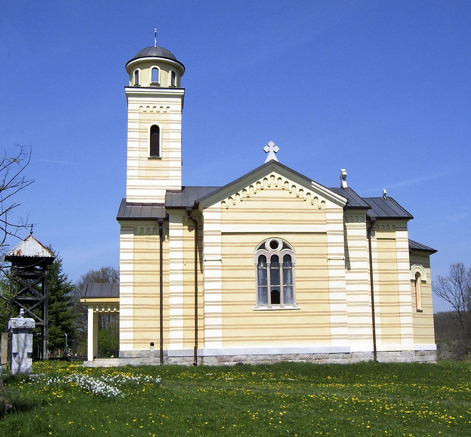 New orthodox church in Pranjani, Serbia; нова црква у Прањанима